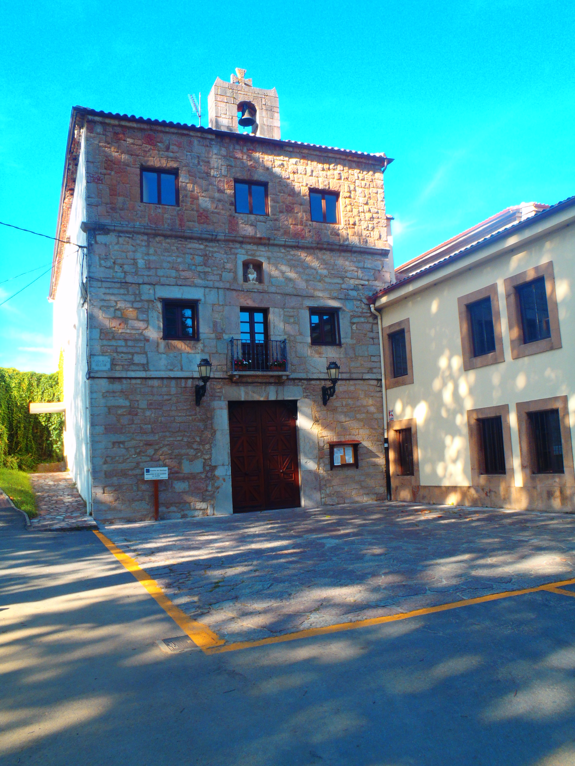 San Salvador Church, Celorio de Llanes (Asturias)